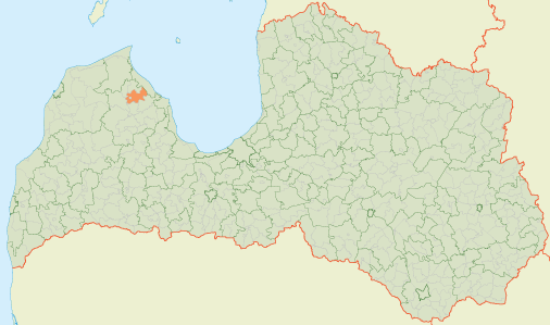 Location of Ārlava Parish (former Valdemārpils rural area) in Latvia